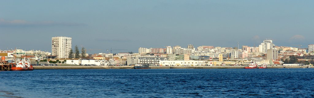 Panoramic view of Setúbal, Portugal Photography by: Osvaldo Gago